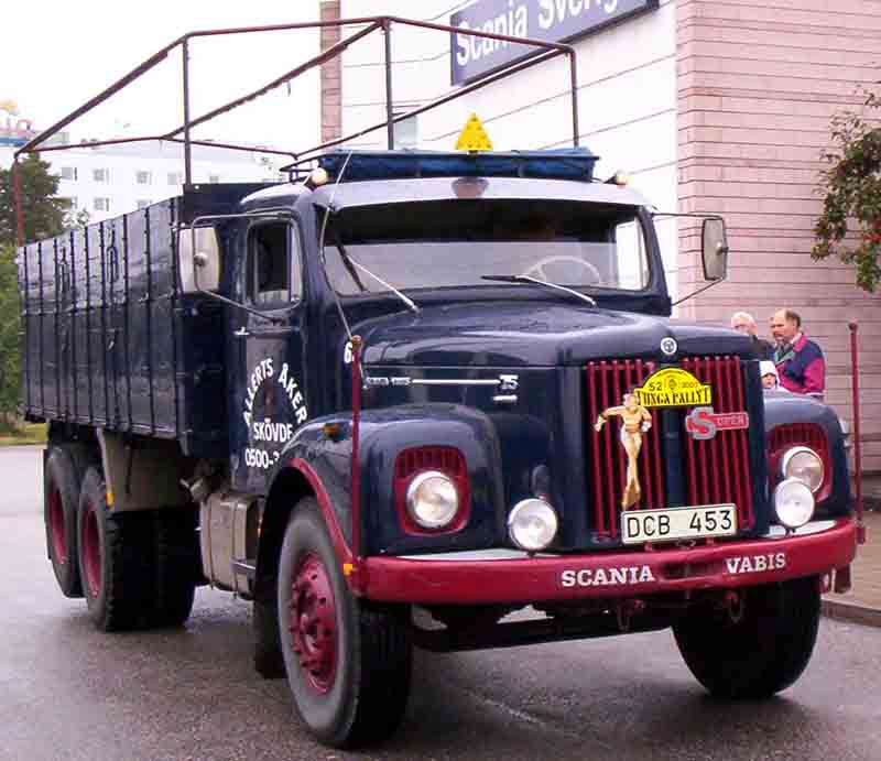 Scania-Vabis LS75 Truck 1961